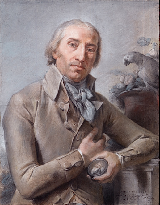 Autoportrait tenant une miniature [de femme], Selfportrait of Jean-Bernard Restout, pastel, dim.: 46.5 x 36.5 cm, made in the Prison of Saint-Lazare (Paris) — Musée des beaux-arts de Rouen (since 1938).